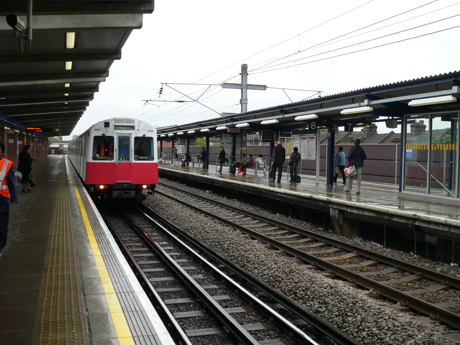 A London Underground District Line D-stock electric multiple unit arrives into West Ham station with a westbound service to Wimbledon on 24 October 2005. Platforms 8 and 7 on the right hand side of the photograph are where the c2c services call.